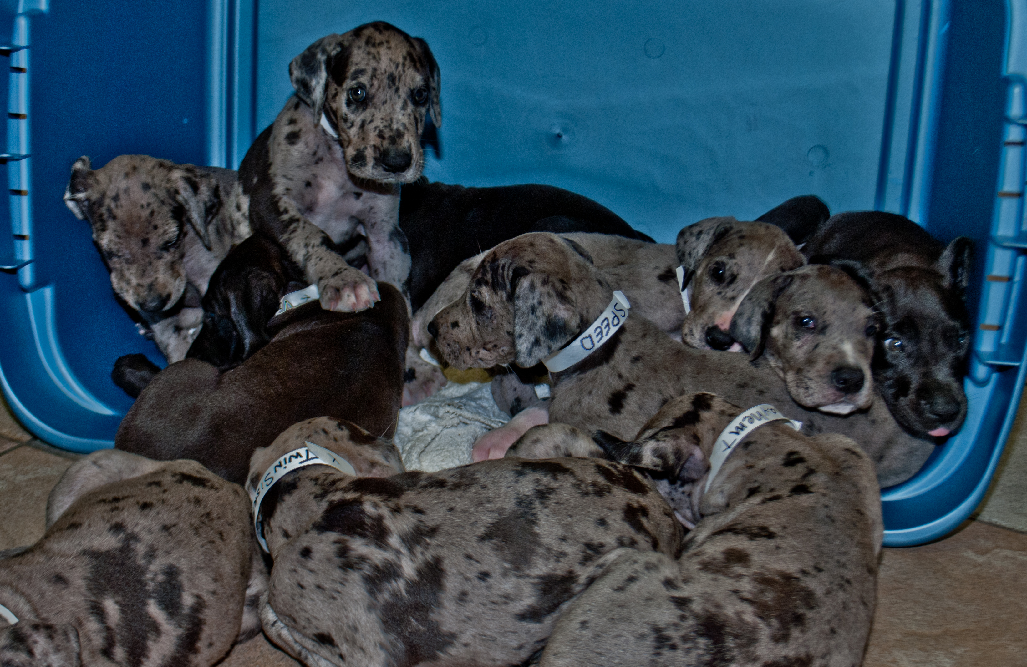 A bunch of Great Dane puppies, three black and others blue merle.